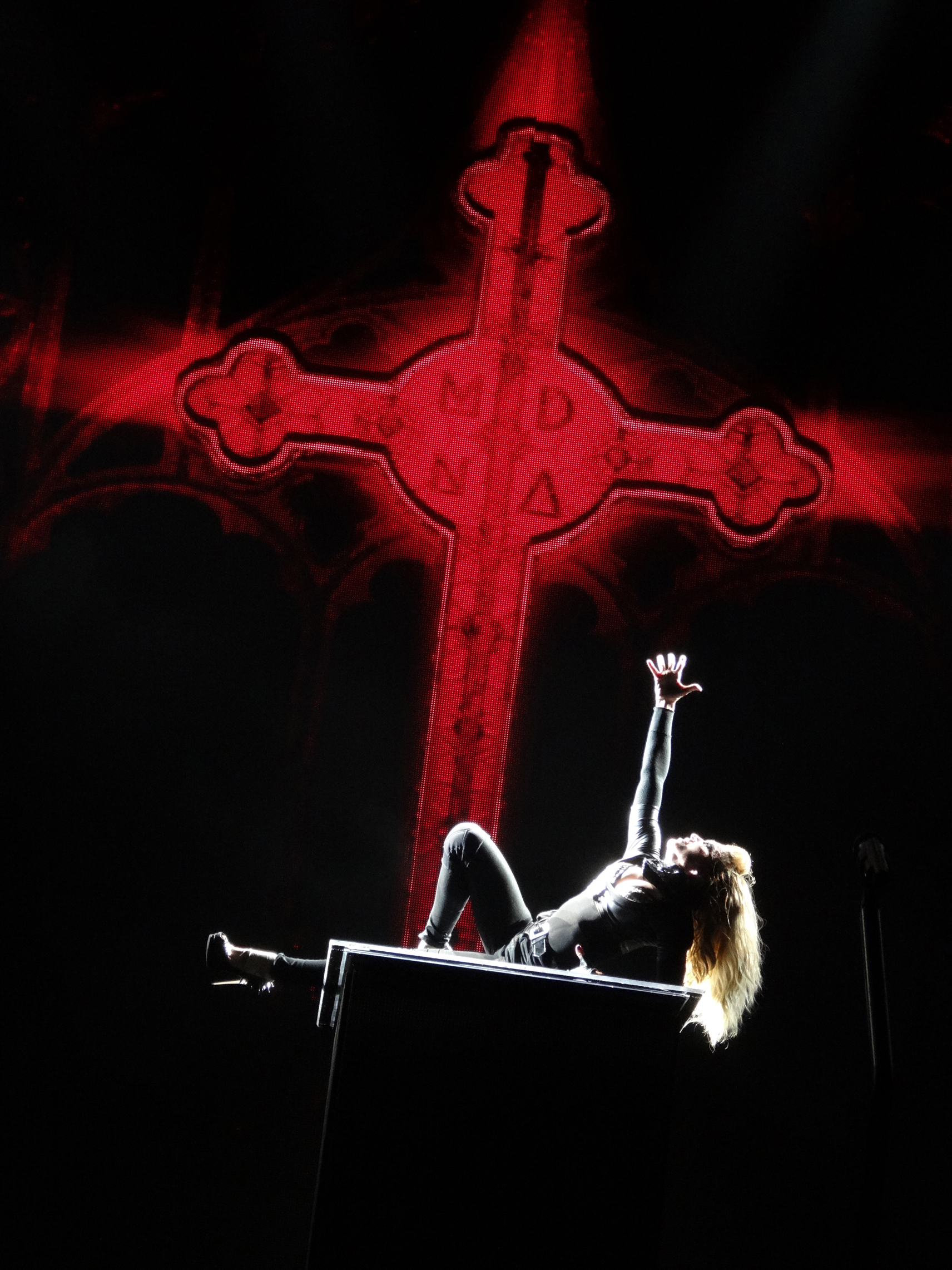 Madonna during her concert in Nice as part of her MDNA Tour on August 21, 2012.